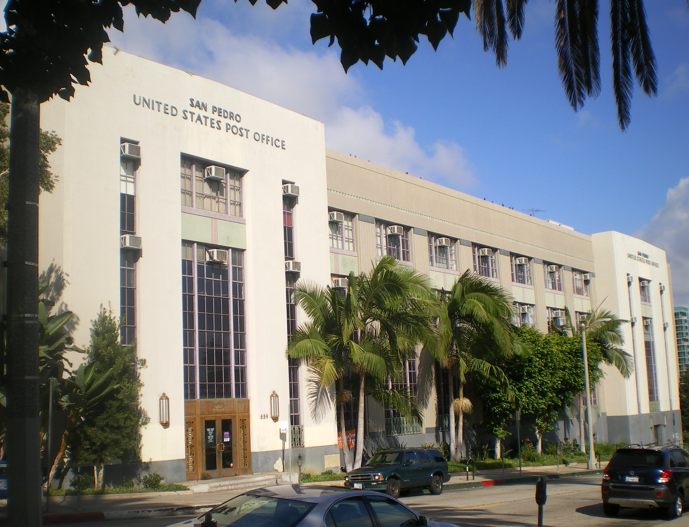 San Pedro Post Office Building, 801-841 S. Beacon St., San Pedro, Los Angeles, California. Building by the Works Progress Administration, on the National Register of Historic Places.